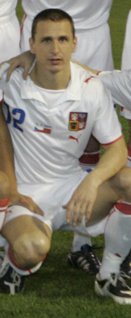 Zdeněk Pospěch (Czech Republic) before the friendly match against Morocco on February 11, 2009